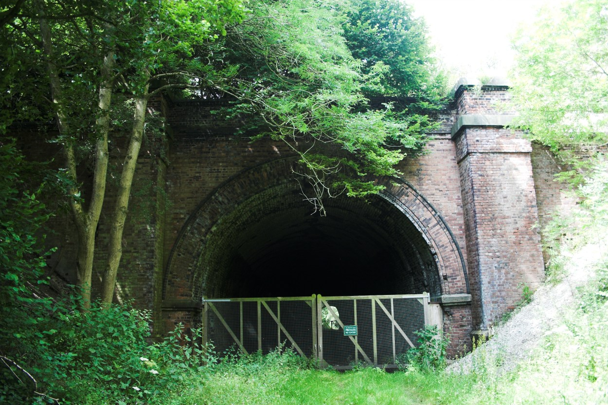 Weedley Tunnel eastern portal, Low Hunsley, East Riding of Yorkshire, England.